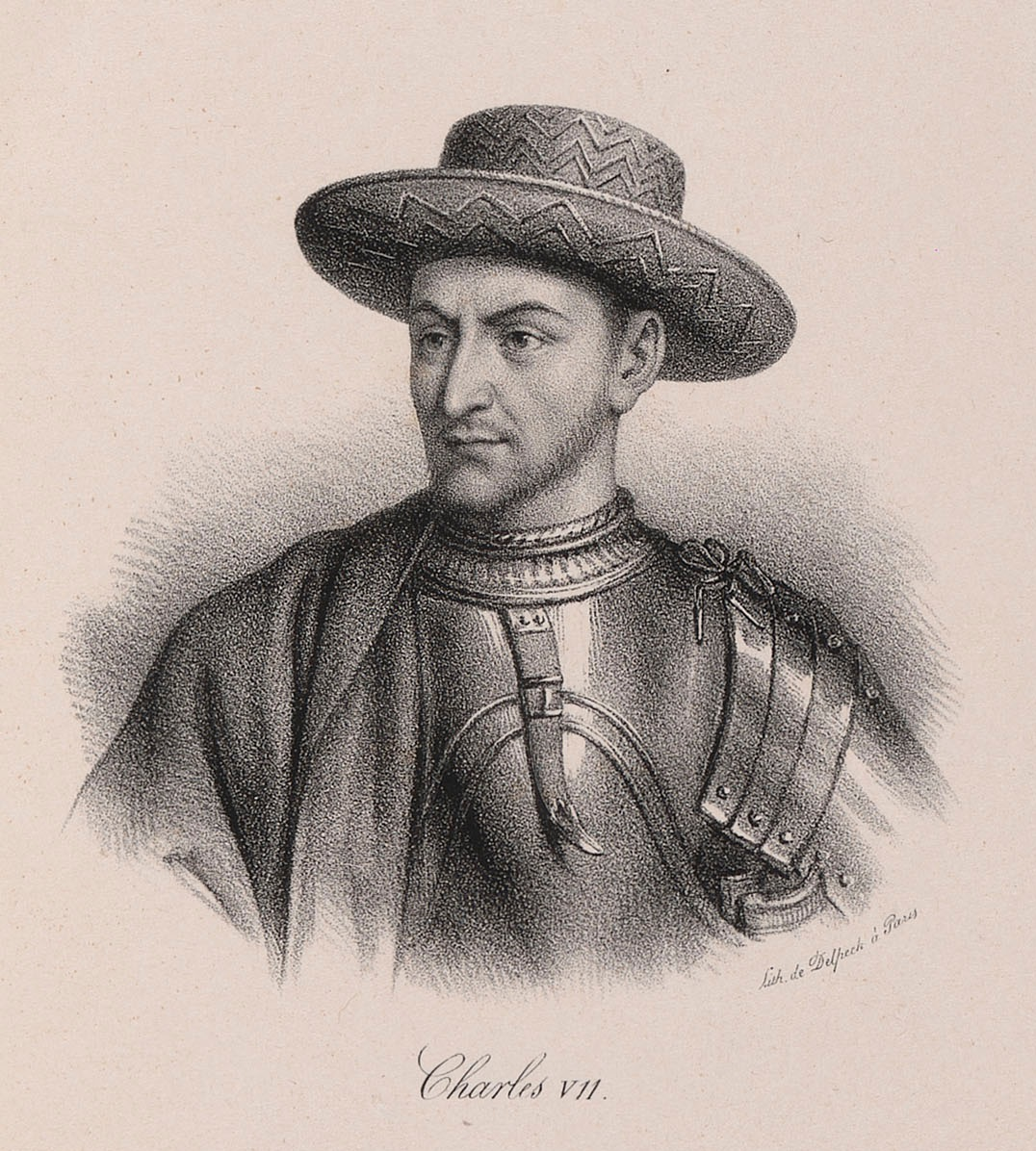 Charles VII of France (1403-1461)